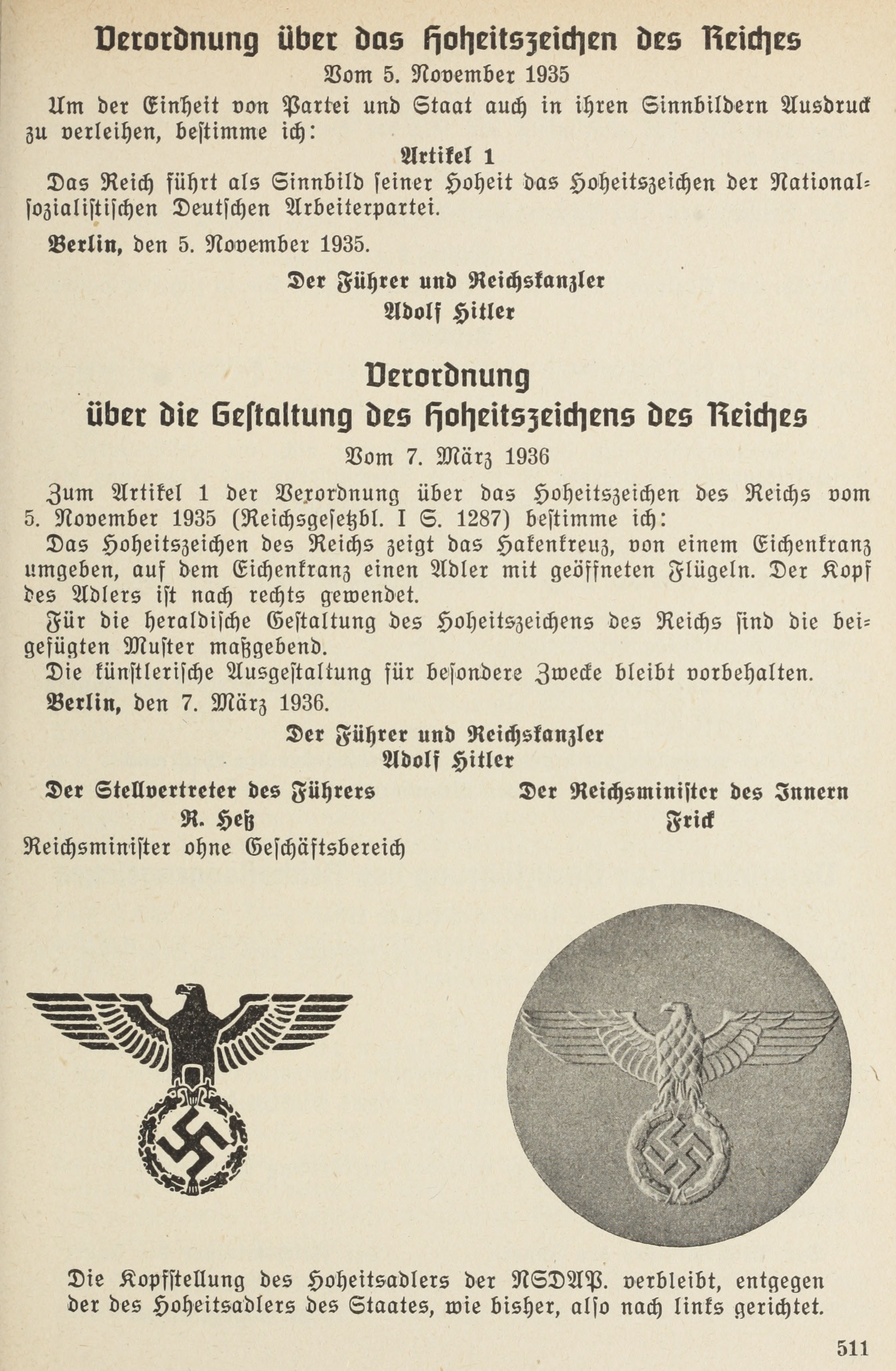 ORGANISATIONSBUCH DER NSDAP 1943: Seite 511 Verordnung über das Hoheitszeichen des Reiches vom 5. November 1935 und Verordnung über die Gestaltung des Hoheitszeichens des Reiches vom 7. März 1936 1935 and 1936 regulations on the national emblem of Nazi Germany and National Socialist German Workers' Party (German: Nationalsozialistische Deutsche Arbeiterpartei, NSDAP). During Nazi rule, a stylised eagle combined with the Nazi Hakenkreuz (swastika) was made the national emblem (Hoheitszeichen) by order of Adolf Hitler in 1935. The Nazi Party had used a very similar symbol for itself, called the Parteiadler ("Party's eagle"). These two insignia can be distinguished as the Reichsadler (German Imperial Eagle) looks to its right shoulder whereas the Parteiadler looks to its left shoulder. Cropped page copied from Organisationsbuch der NSDAP by Reichsorganisationsleiter Robert Ley (1890 – 1945) published 1943 ("Herausgeber: Robert Ley"; "7 Auflage: 301-400 Tausend"). Publisher : Zentralverlag der NSDAP, Franz Eher Nachf., München. 856 pages. 596 (ie 750) p: ill, maps, ports, plates; 22 cm; German language. Letters in Fraktur style typefaces. Legal disclaimer This image shows (or resembles) a symbol that was used by the National Socialist (NSDAP/Nazi) government of Germany or an organization closely associated to it, or another party which has been banned by the Federal Constitutional Court of Germany. The use of insignia of organizations that have been banned in Germany (like the Nazi swastika or the arrow cross) are also illegal in Austria, Hungary, Poland, Czech Republic, France, Brazil, Israel, Ukraine, Russia and other countries, depending on context. In Germany, the applicable law is paragraph 86a of the criminal code (StGB), in Poland – Art. 256 of the criminal code (Dz.U. 1997 nr 88 poz. 553).